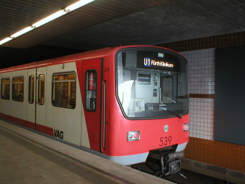 Train type DT2 of Nuremberg's underground system at Hasenbuck underground station